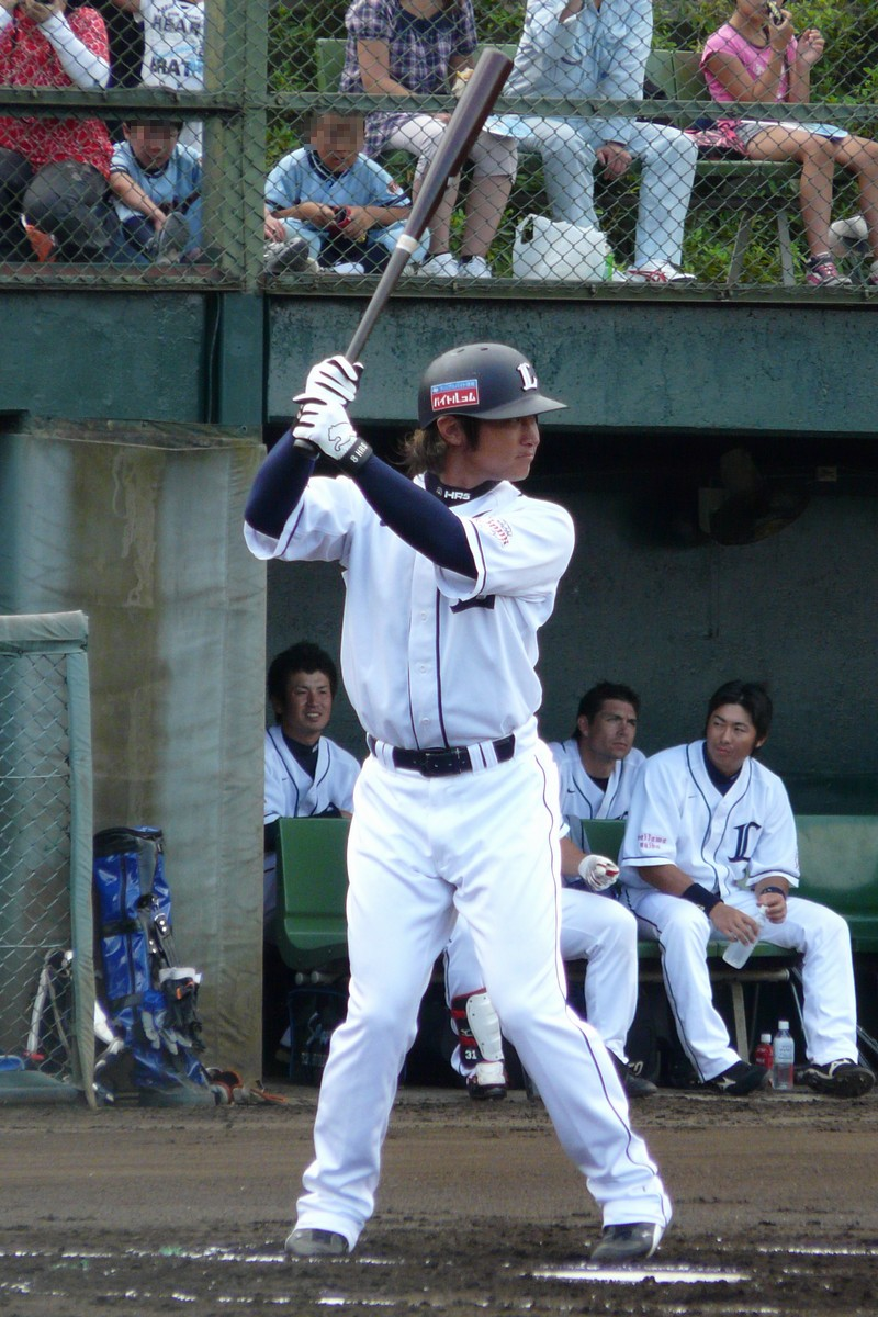 Hiroshi Hirao, infielder of the Saitama Seibu Lions, at Seibu Lions Baseball Ground 2.